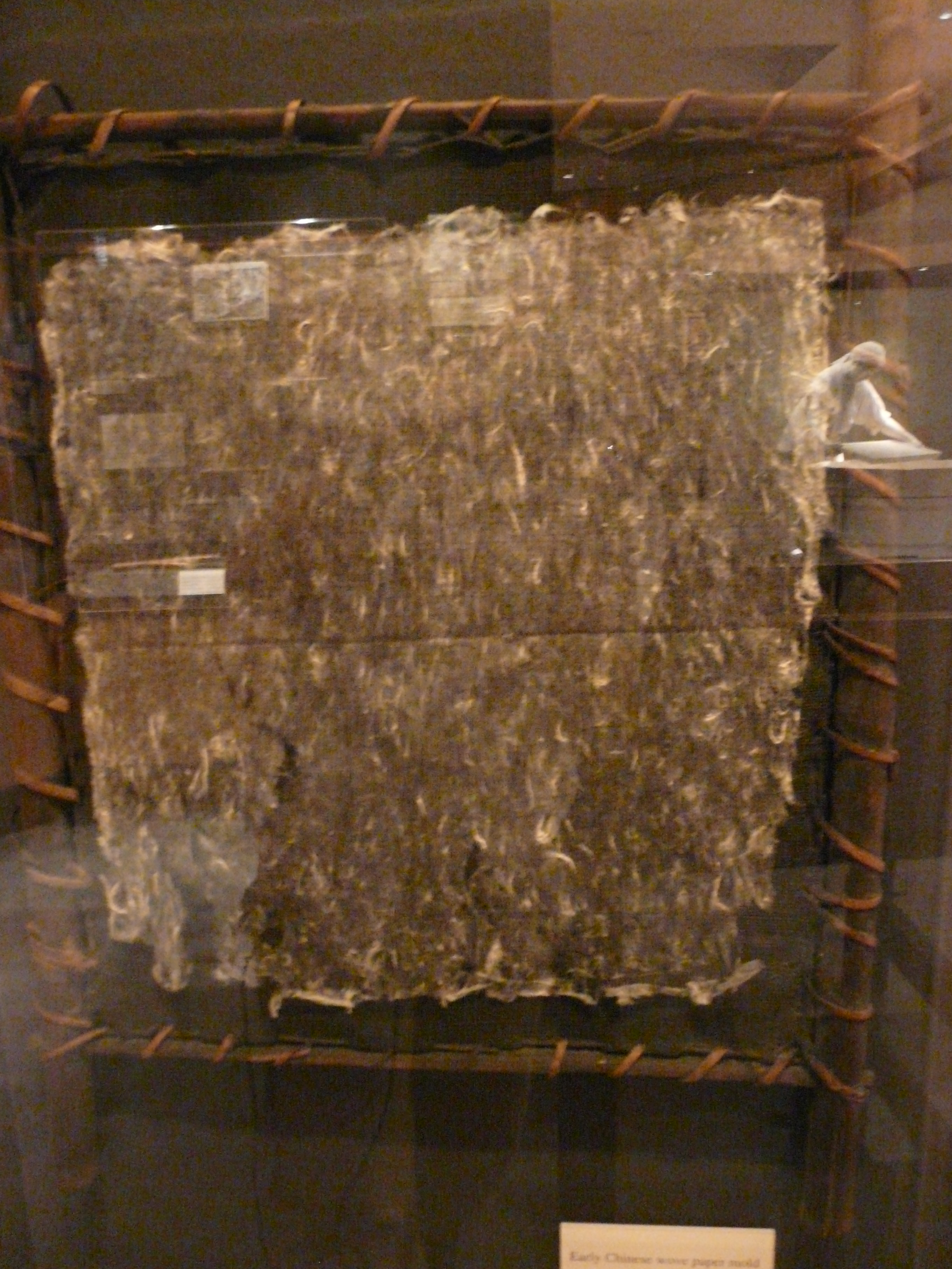 Robert C. Williams Paper Museum Early Chinese wove paper mold